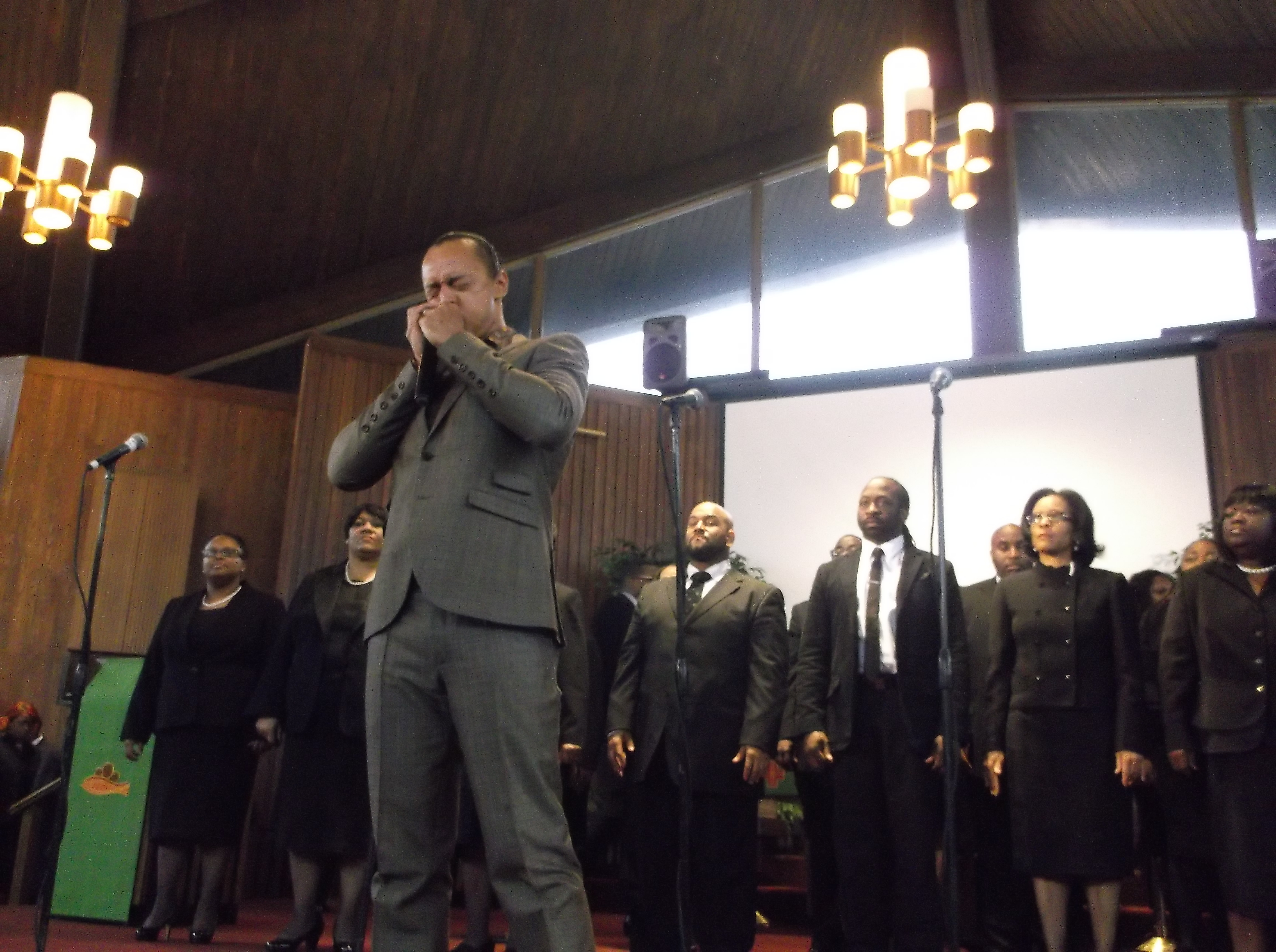 Urban jazz harmonicist Frederic Yonnet performs Feb. 15 during the Joint Base Myer-Henderson Hall Gospel Services Black History Month celebration at Memorial Chapel on the Fort Myer portion of the joint base. (Photo by Julia LeDoux)